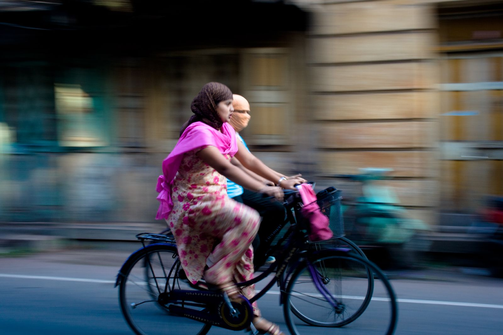 Girls bicycling along Pune streets